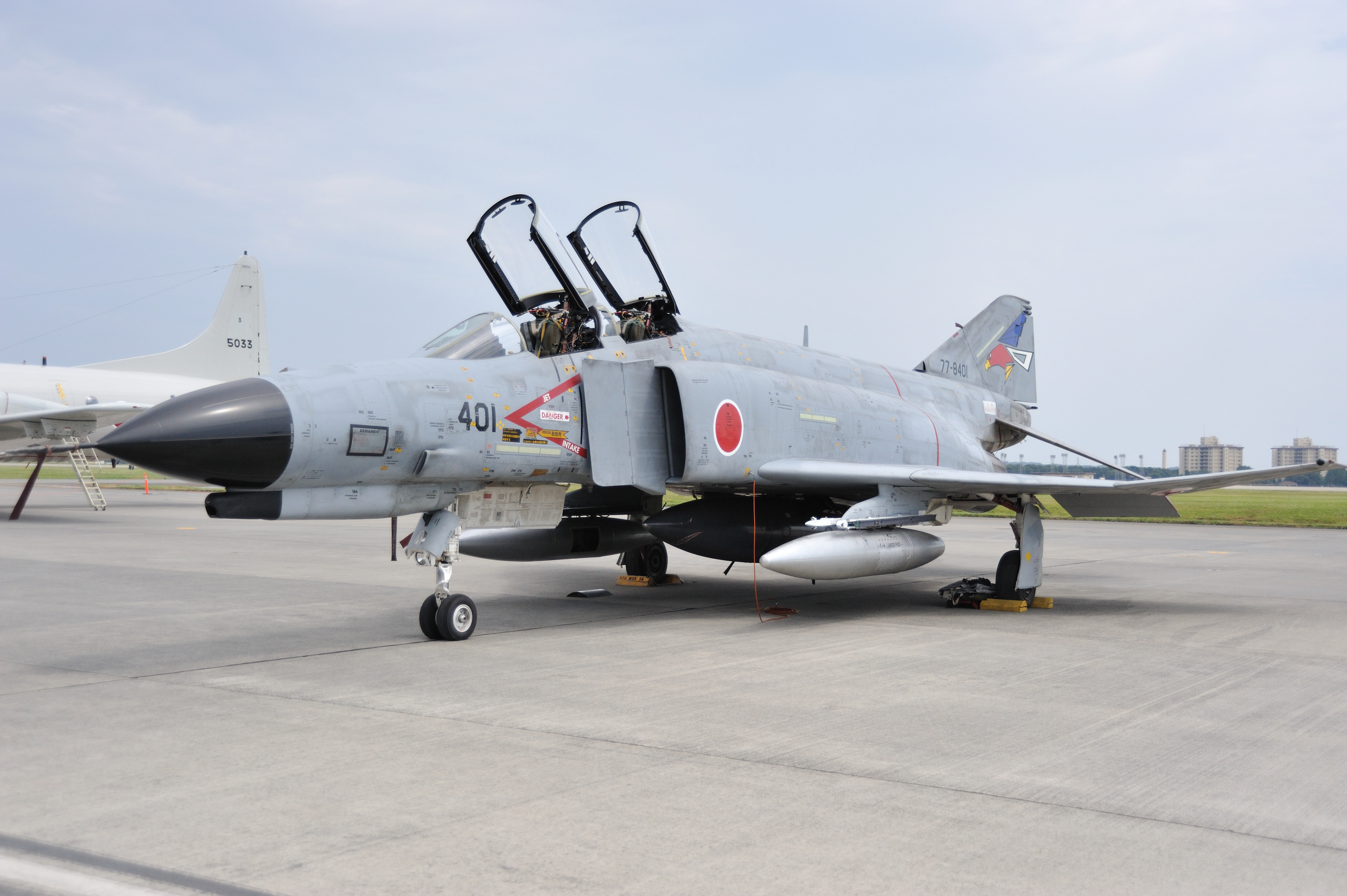 F-4EJ kai (401) of 302 Sqn displayed at Yokota Air Base Friendship Festival 2009. Nikon D700 + AF-S VR 24-120mm f/3.5-5.6G IF-ED